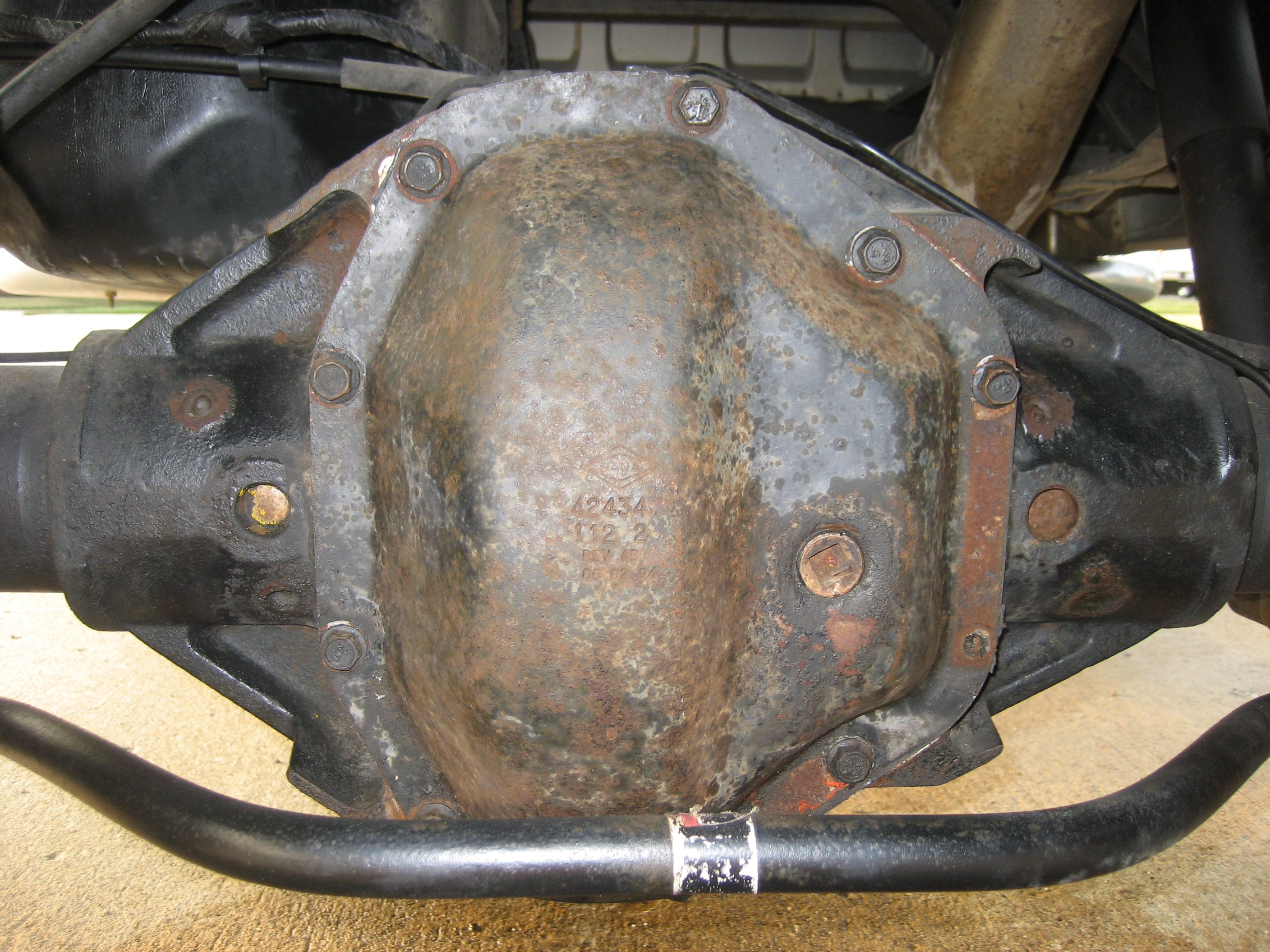 Dana 80 35 Spline from a 2002 Dodge 2500HD Diesel DANA 80 Center-section with Dana 70 axle tubes (Dana 70/80 hybrid